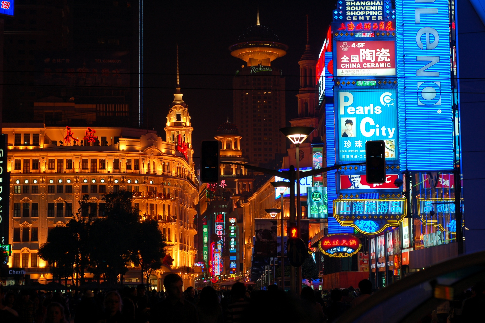 The Nanjing Road in Shanghai at night.